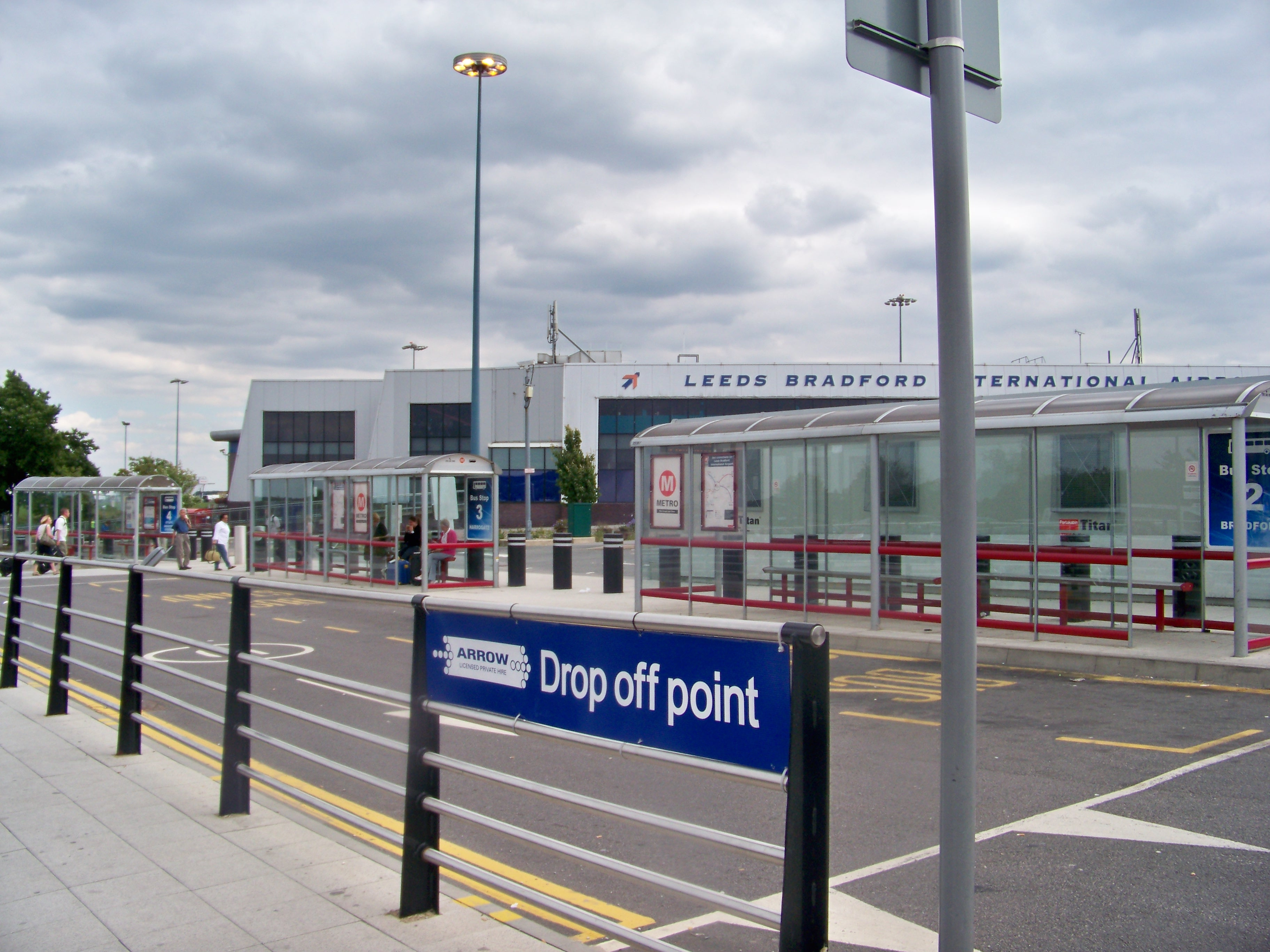 The bus interchange at Leeds Bradford International Airport. Taken on the afternoon of Saturday the 24th of July 2010.